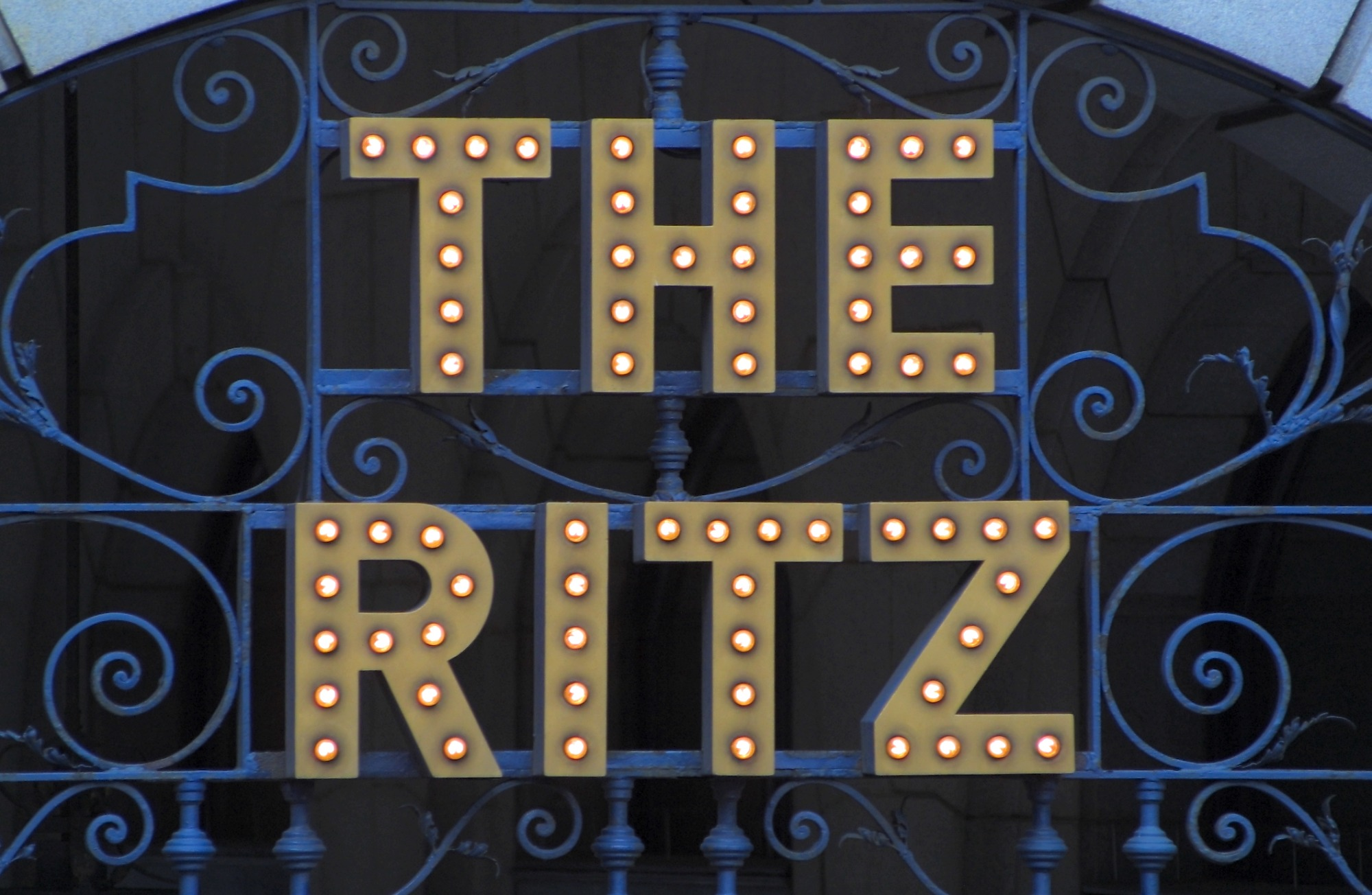 A view of the sign above the western entrance to Ritz hotel Ritz arcade on Piccadilly. The image was taken with a Canon EOS D30 with a Sigma 70-300mm lens.